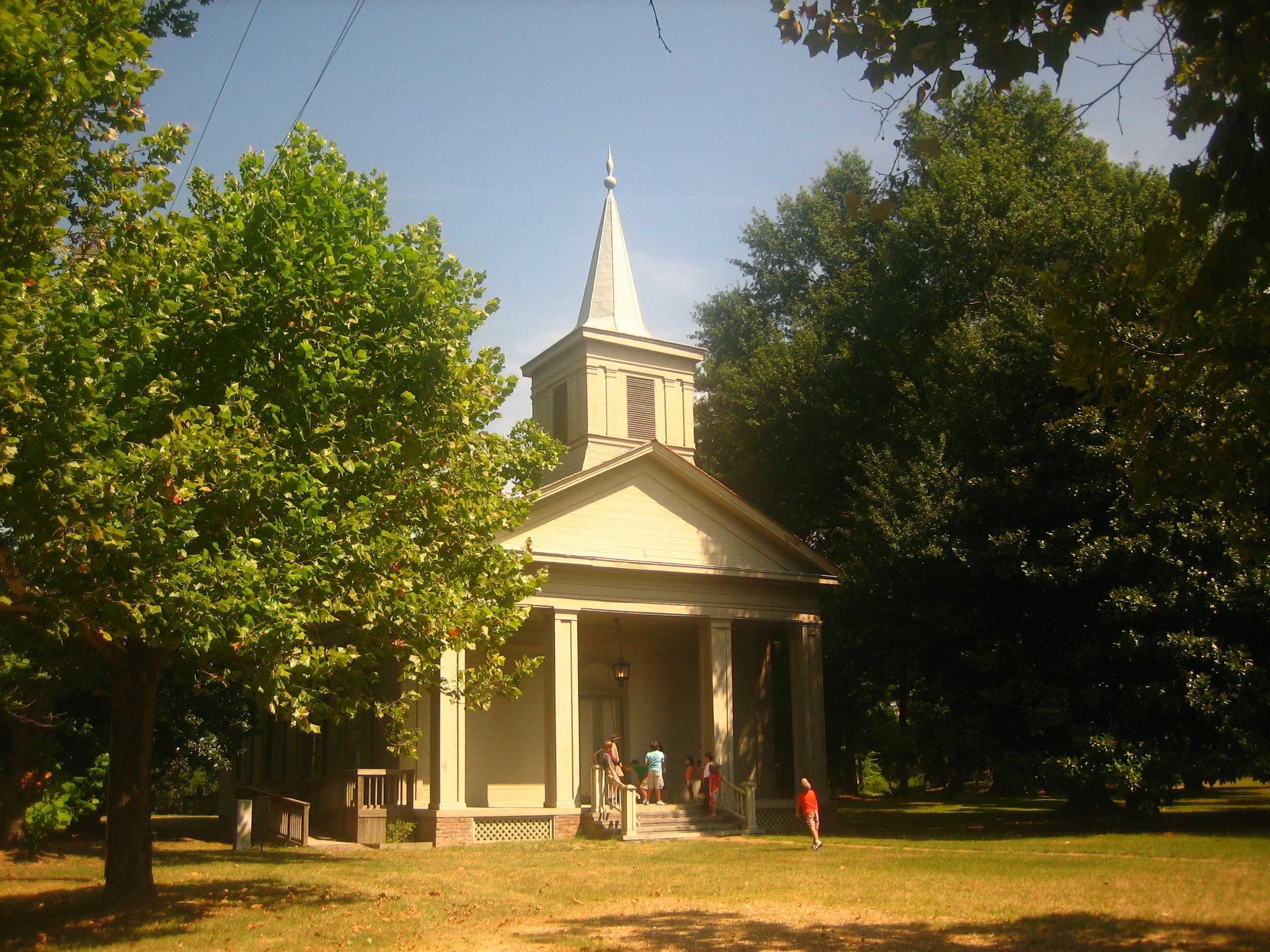 I took photo on Aug. 7, 2008.Billy Hathorn (talk) 21:43, 10 September 2008 (UTC)